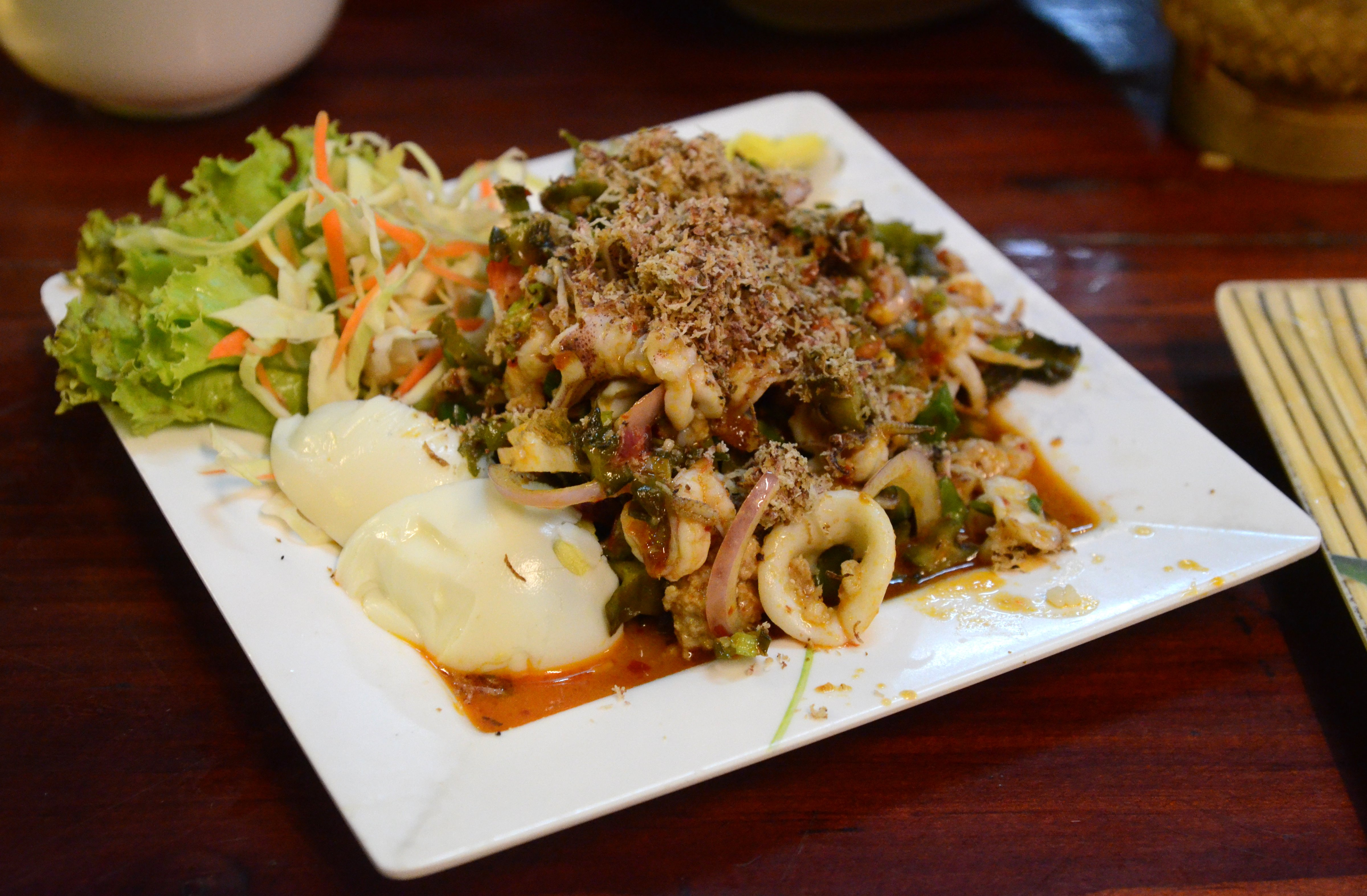 Yam thua phu (Thai script: ยำถั่วพู): A Thai salad with winged beans, squid, salted eggs, toasted coconut, shallots, fish sauce, lime juice and chillies.